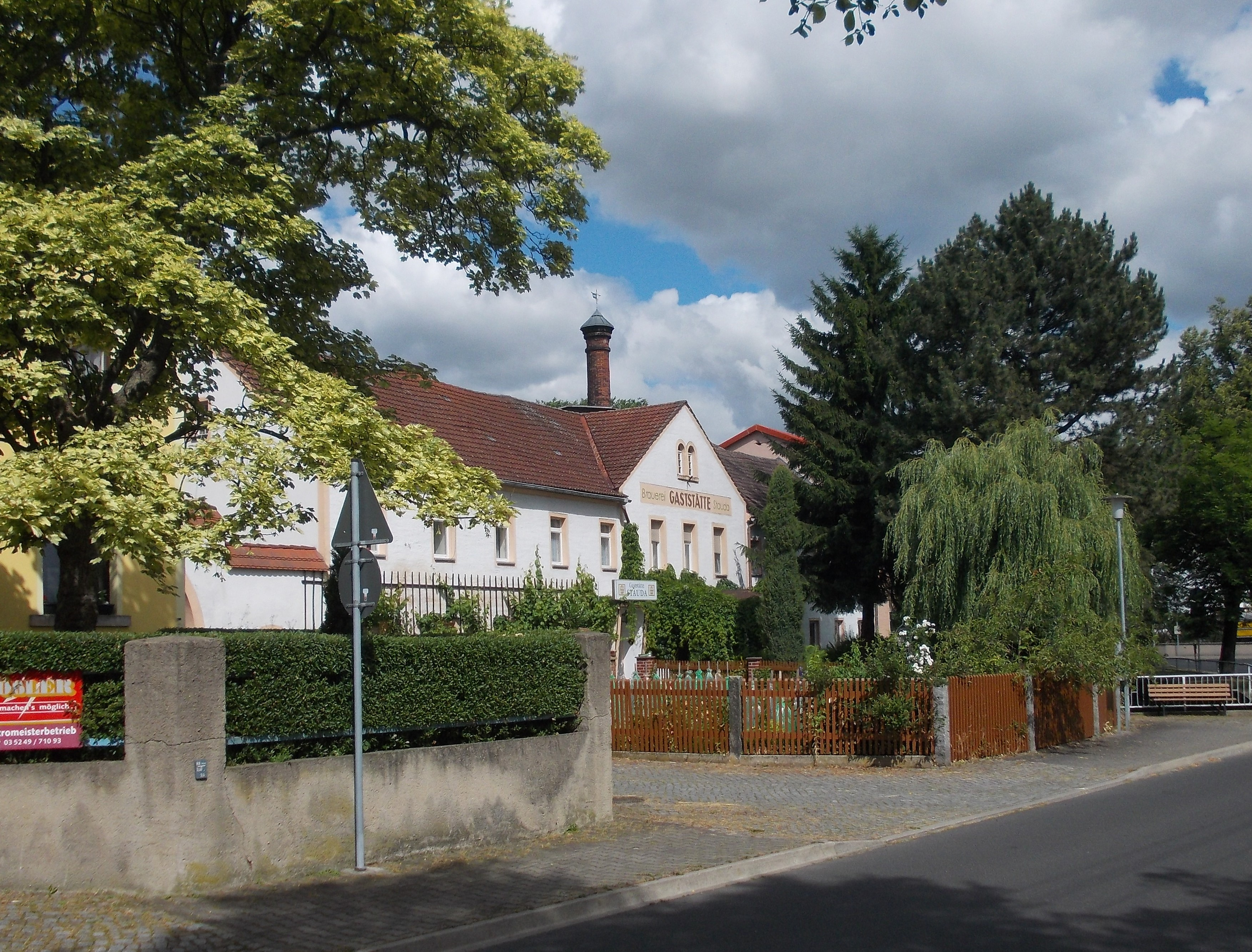 Brewery restaurant in Stauda (Priestewitz, Meissen district, Saxony)